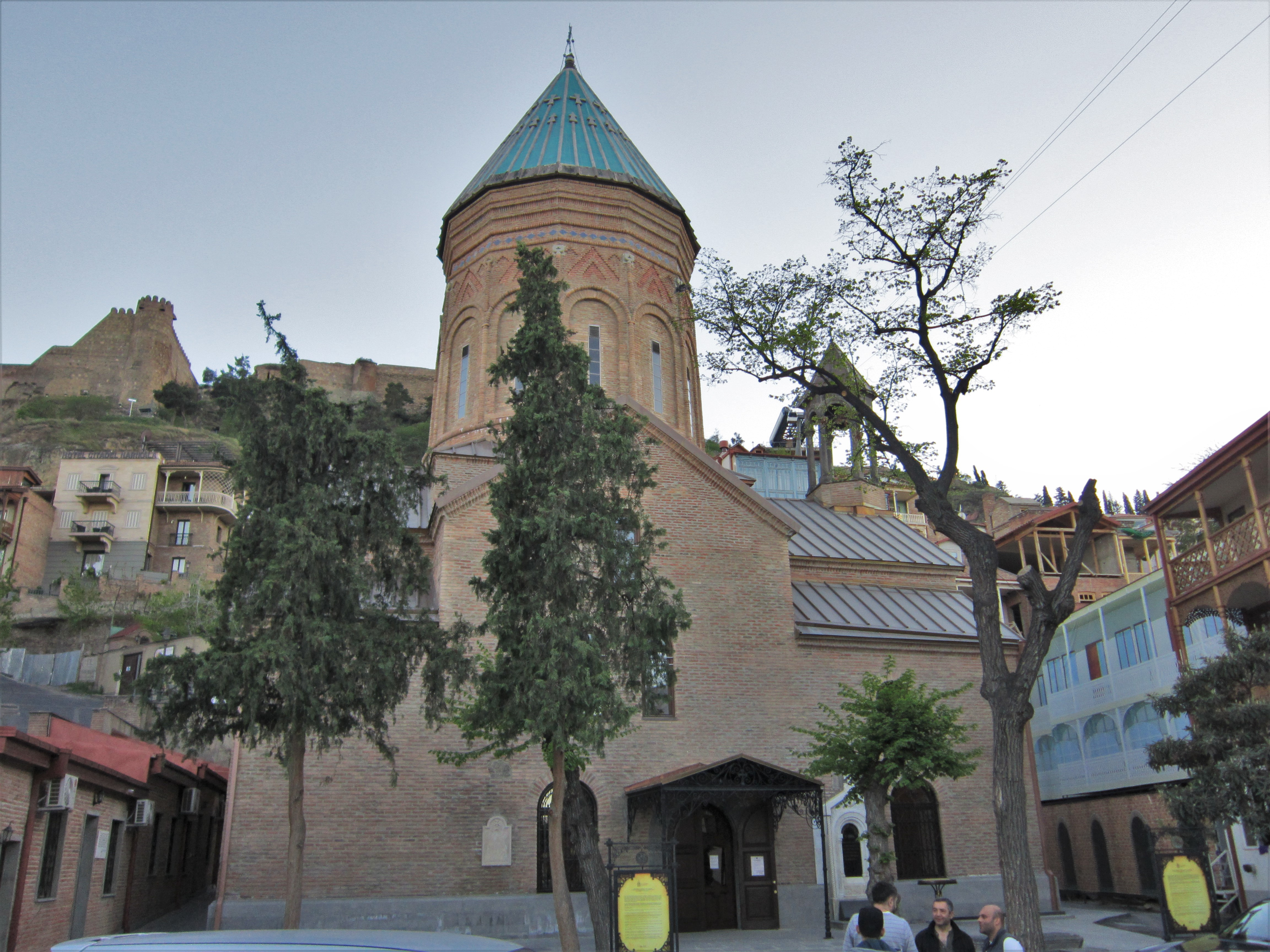 St Gevorg Armenian church in Tbilisi